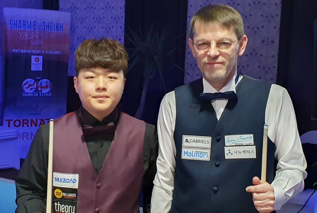 see fiel name